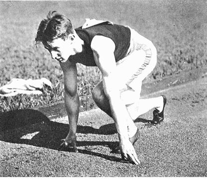 Arthur Duffey, American sprinter of the early 20th Century.